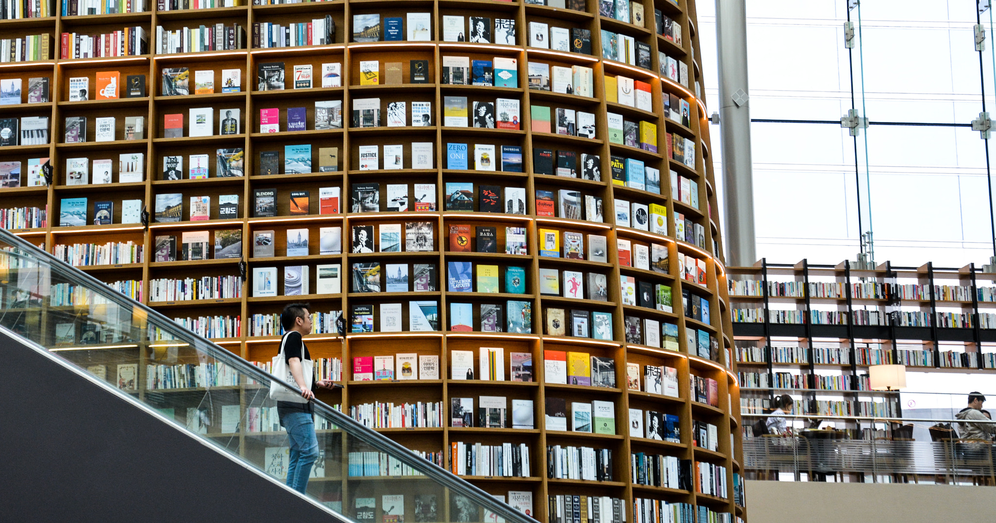 500px provided description: This is an awesome public library that is located inside a mall in Gangnam, Seoul South Korea. I was happy to see parents reading to their kids. [#people ,#escalator ,#public library ,#racks ,#Books ,#LIbrary]